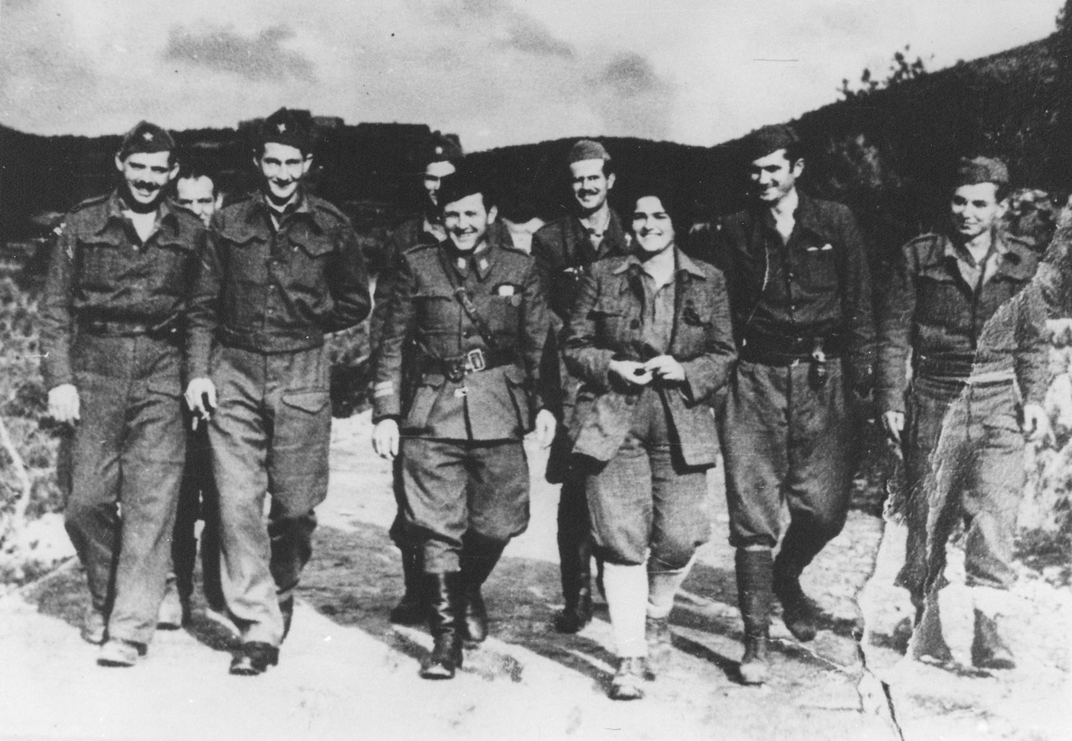 Members of the 26th Yugoslav Partisans' Division Headquarters, Biokovo Mountain in Croatia, December 1943.